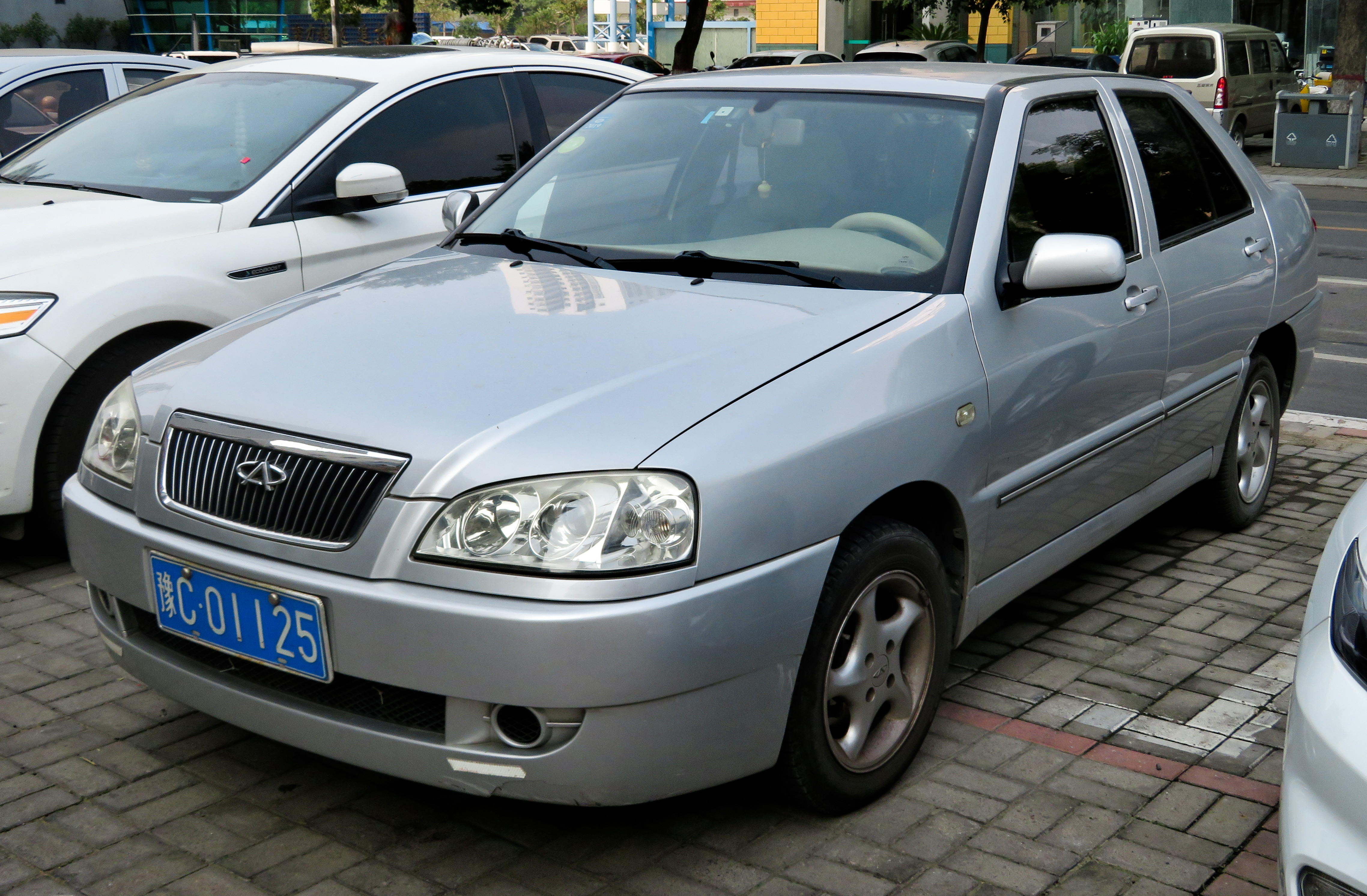 A 2003 Chery Cowin photographed in Xigong District, Luoyang, Henan province, China